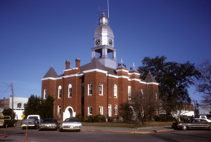 Berrien County courthouse in Nashville, Georgia, United States